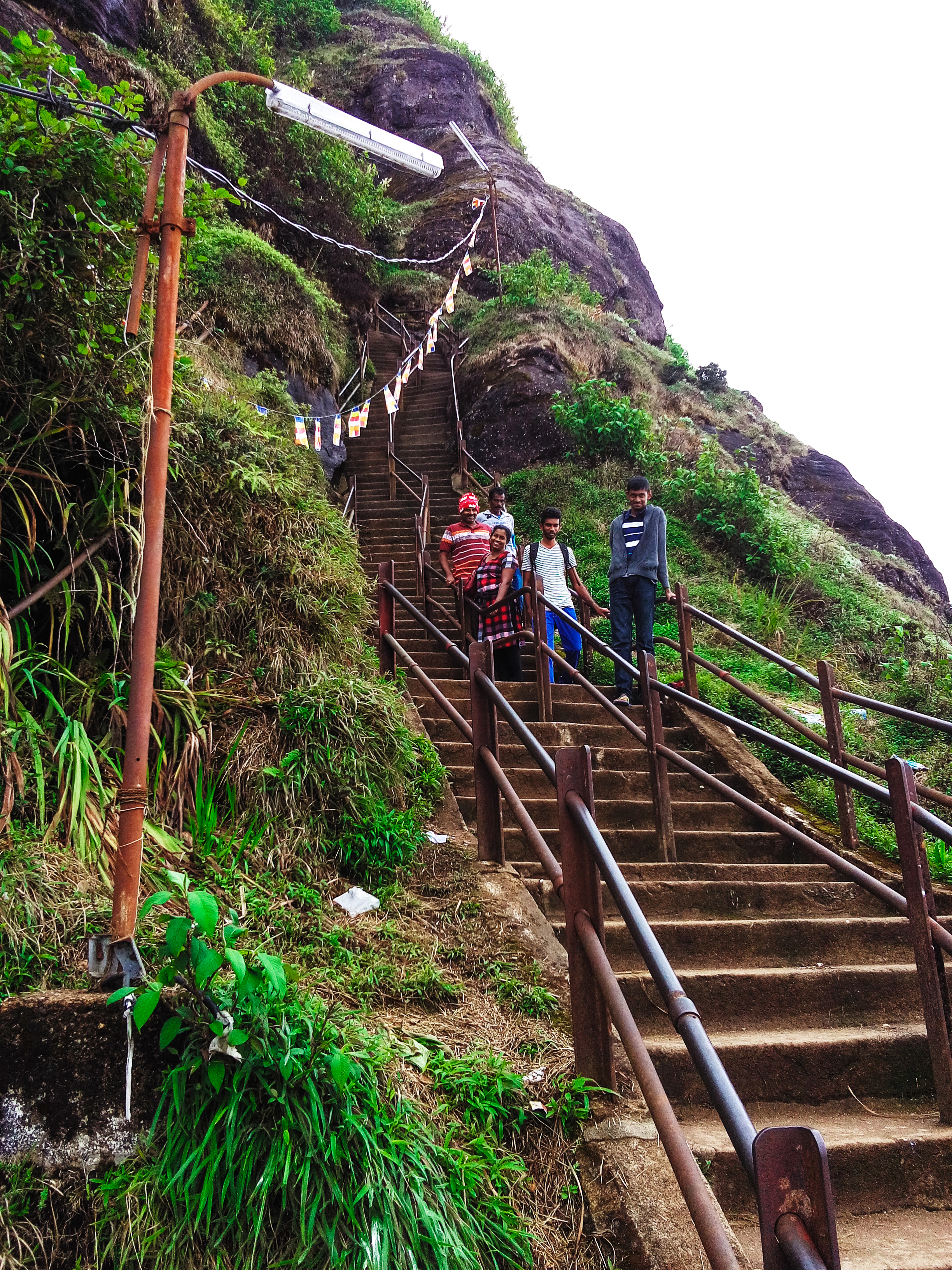 Sri Padaya Adam's Peak road